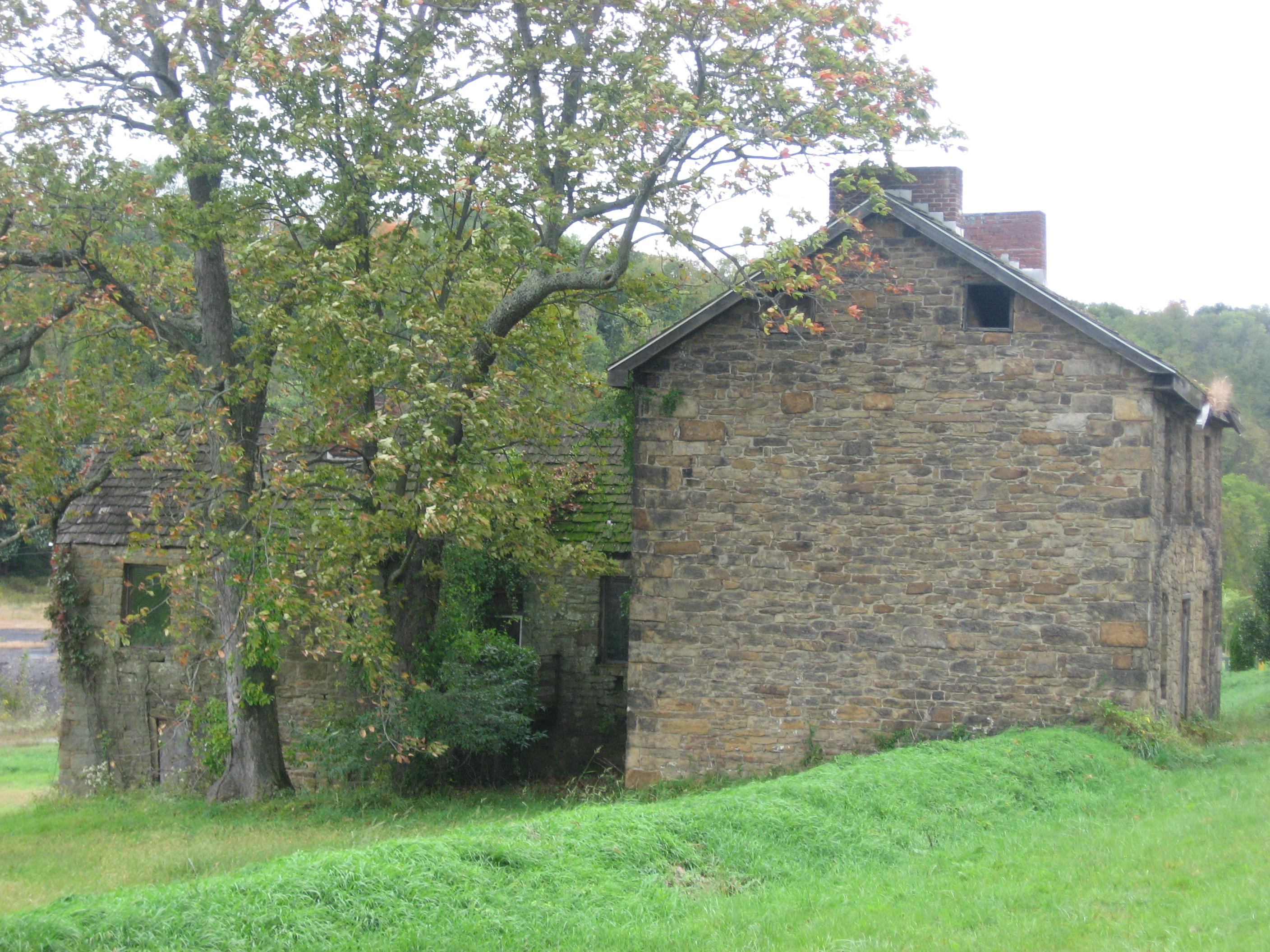 Eastern side of the Peter Colley Tavern, formerly a prominent tavern located on the old National Road (now U.S. Route 40) at Brier Hill in Redstone Township, Fayette County, Pennsylvania, United States. Built in 1796, it is listed on the National Register of Historic Places, together with an associated barn; both are part of the Brier Hill Historic District, which is also listed on the Register.